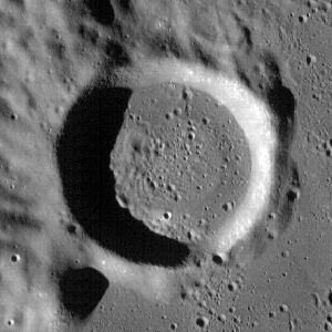 Crater Fontenelle D on the Moon, on the northern shore of Mare Frigoris. It has some signs of a concentric crater. Its diameter is about 16 km. Probably, it's partially filled with lava. It is number 25 in the list of concentric craters by Wood, 1978. Photo by Lunar Reconnaissance Orbiter, made with Wide Angle Camera on 22 July 2011 from altitude 53 km. Sun elevation is 11.1°. Width of the photo is 25 km, north is approximately up.